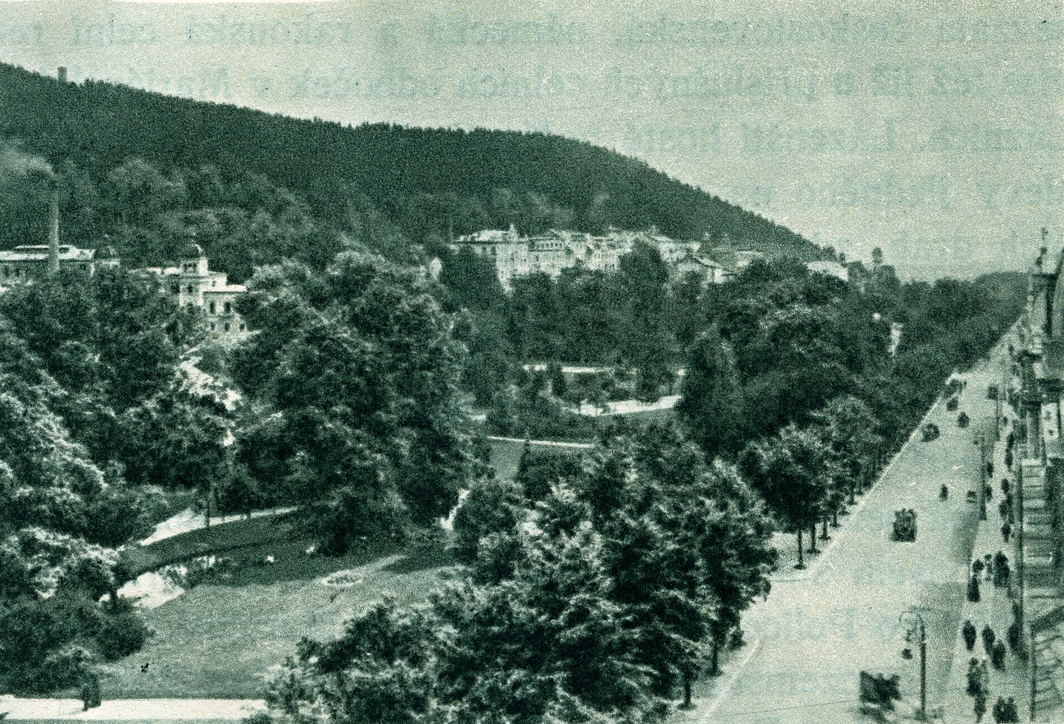 Picture from the book Mariánské Lázně – perla světových lázní (1927).